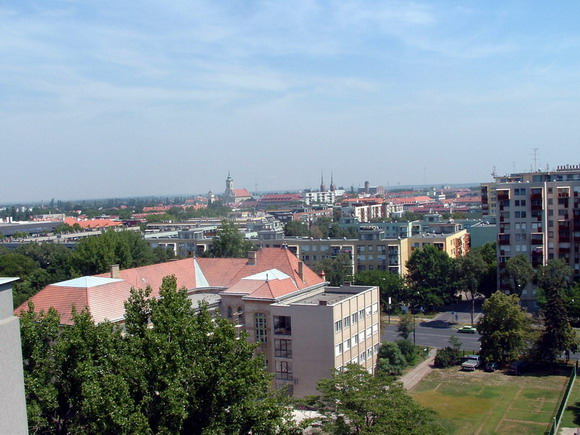 Landscape of Békéscsaba